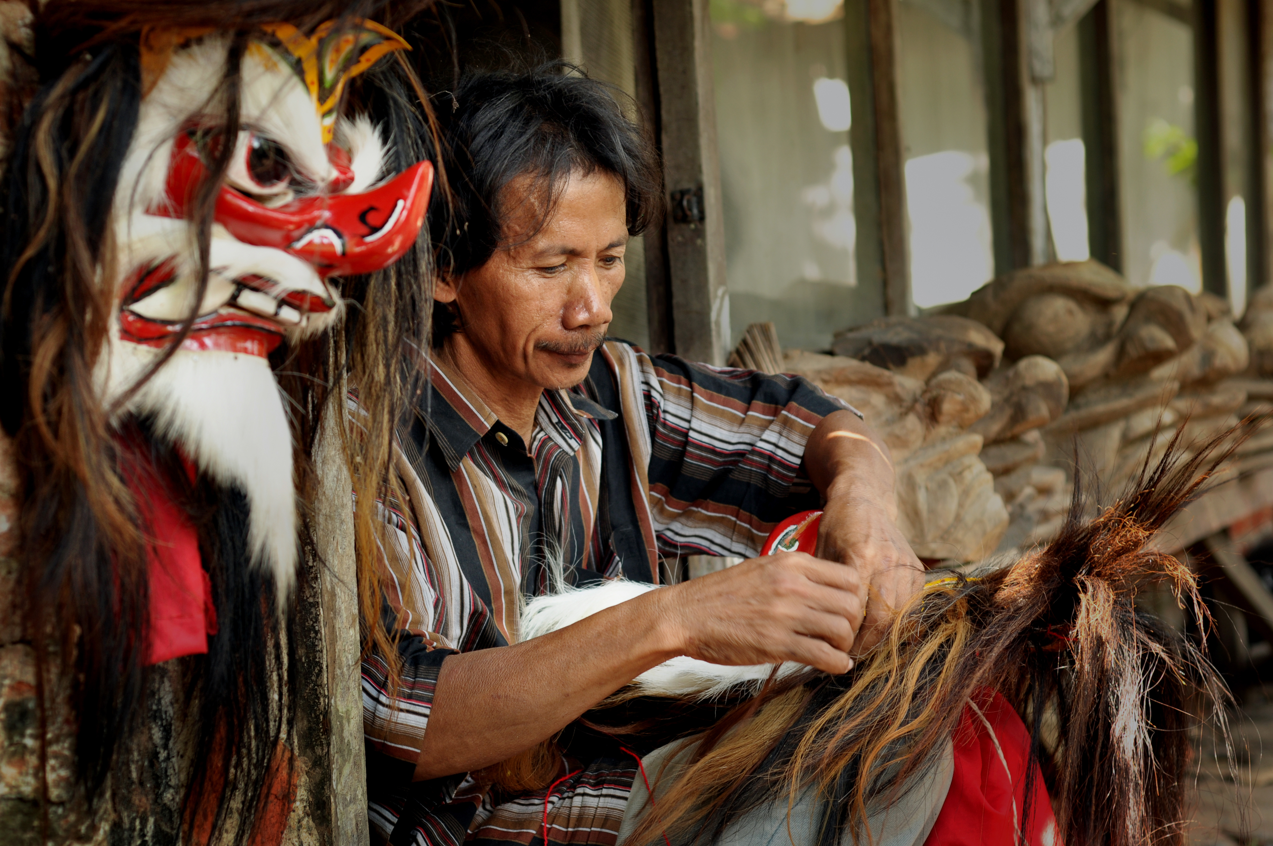 craftsmen Barongan mask in Blora city